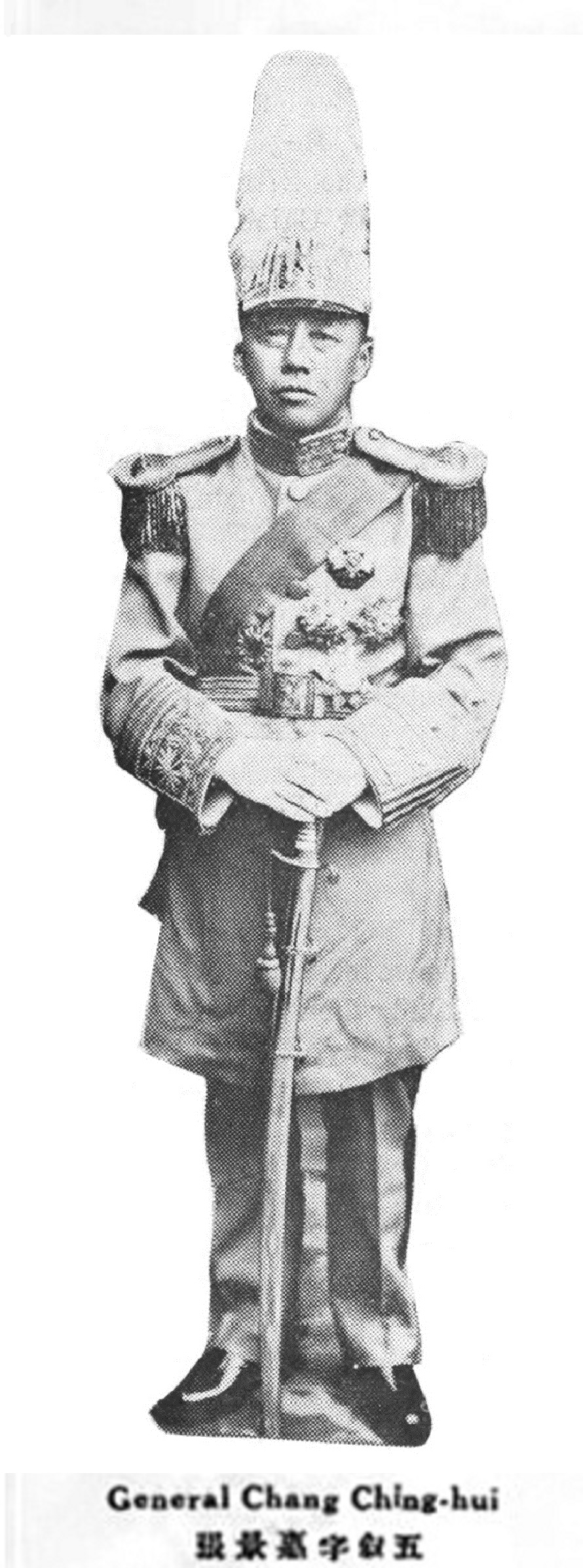 Zhang Jinghui (1871-1959)